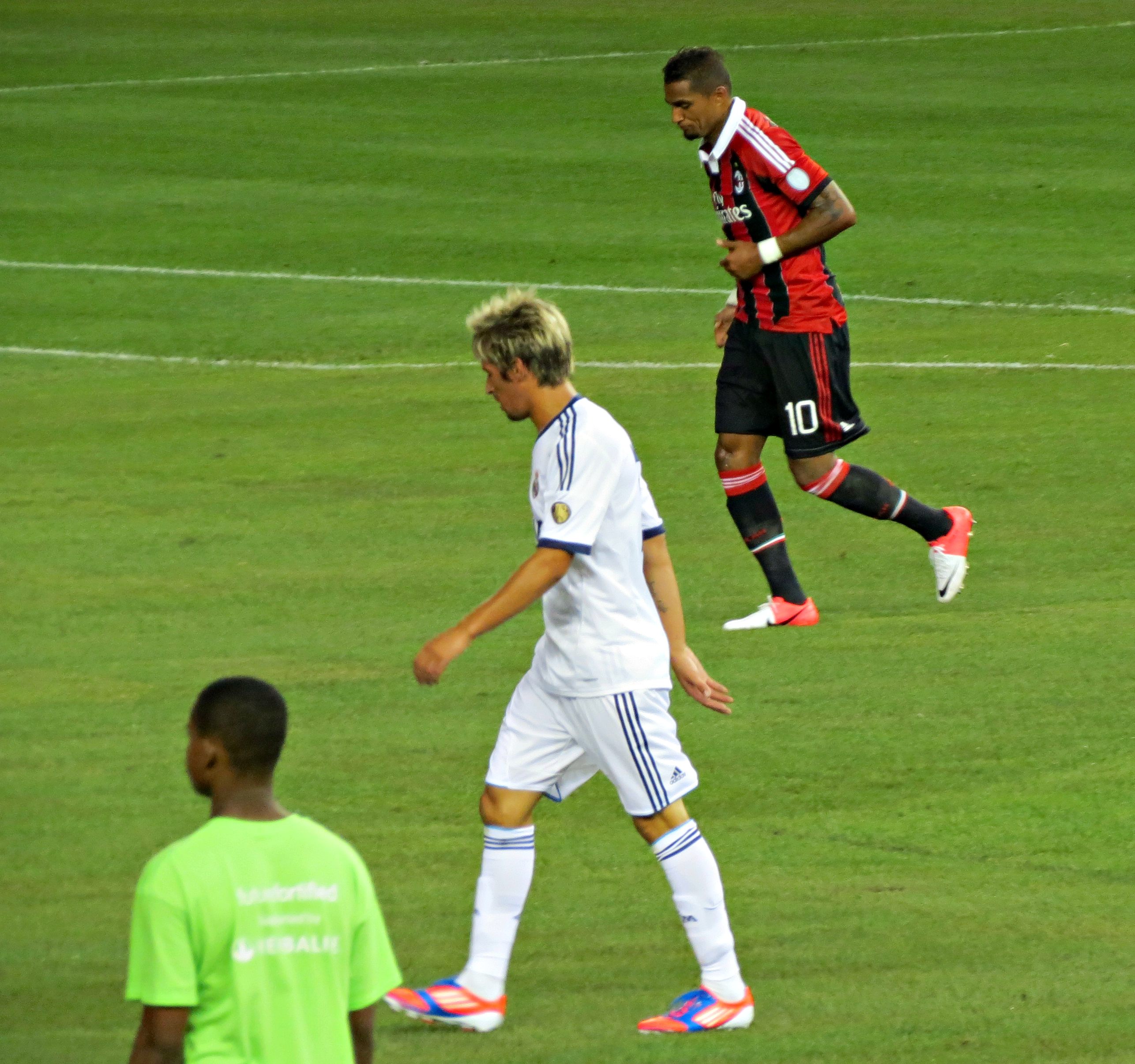 Fábio Coentrão of Real Madrid and Kevin-Prince Boateng of Milan at Yankee Stadium, August 2012.